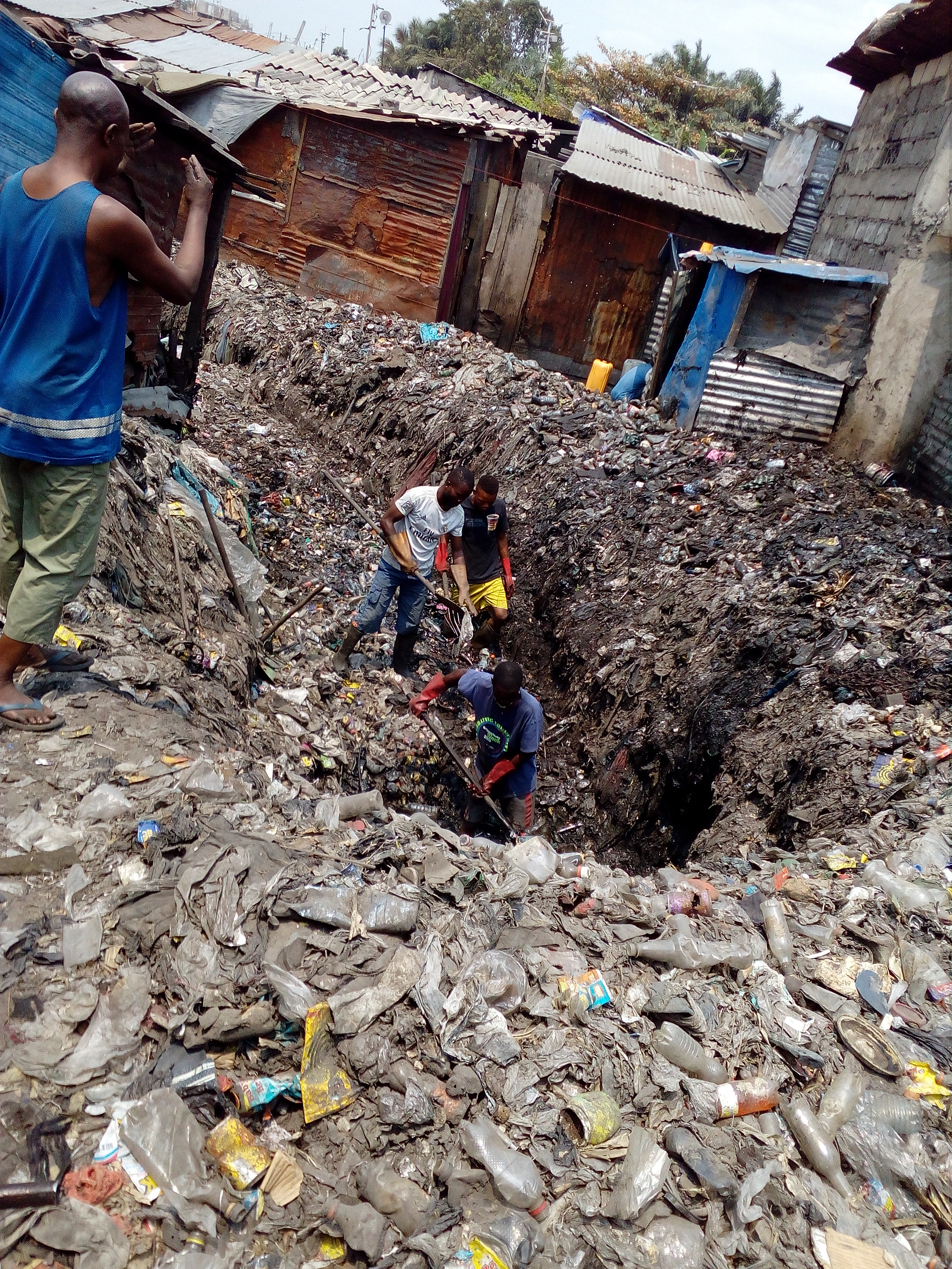 Sanitation work in locality of PAKA-DJUMA, Township of LIMETE This is an image of "African people at work" from Democratic Republic of the Congo